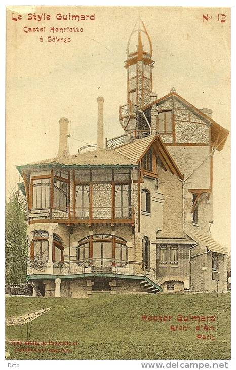 Castel Henriette, in Sèvres, in a publicity postcard by the architect, Hector Guimard